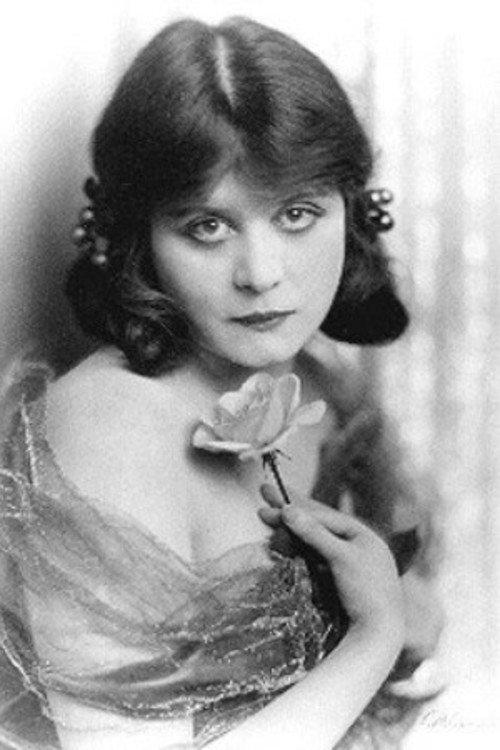 Actress Theda Bara in a promotional photo